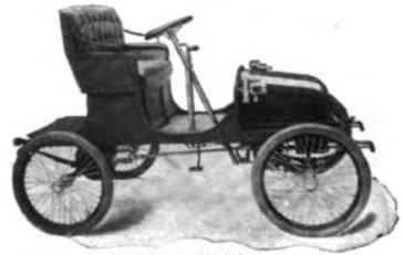 The image is of a 1903 Covert Automobile from an article. The scan comes from the Google Books archive: Title Automobile trade journal, Volume 7 Publisher Chilton Company, 1903 Original from the University of Michigan Digitized Apr 27, 2006. Note that contrary to the file name, this is likely a 1903 model.